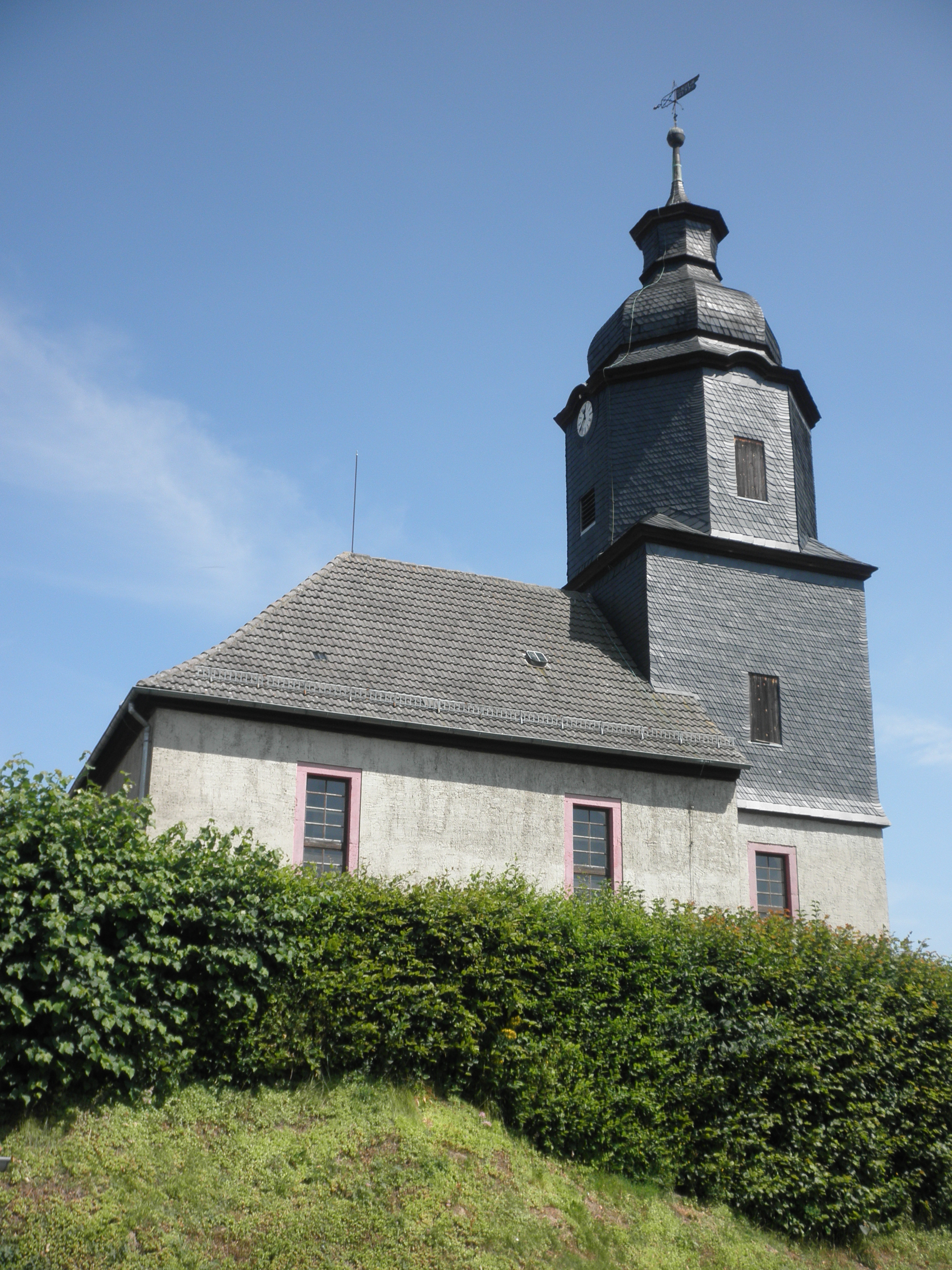 Church in Möckern in Thuringia